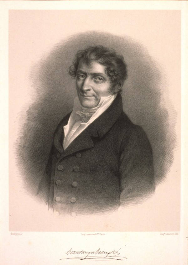 Portrait of French cartographer and hydrographical engineer Charles-François Beautemps-Beaupré (1766-1854)